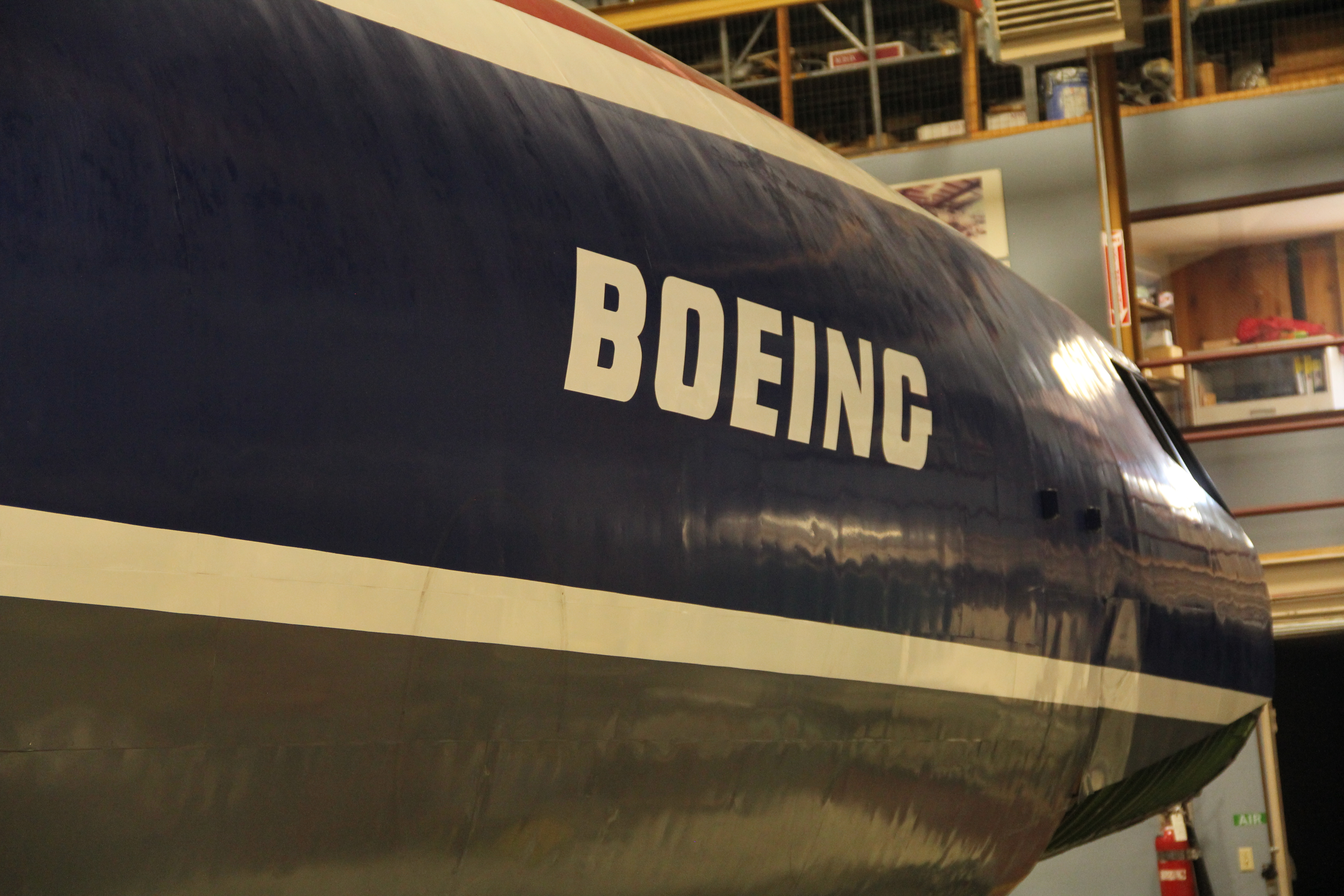 At the Museum of Flight restoration facility at Paine Field